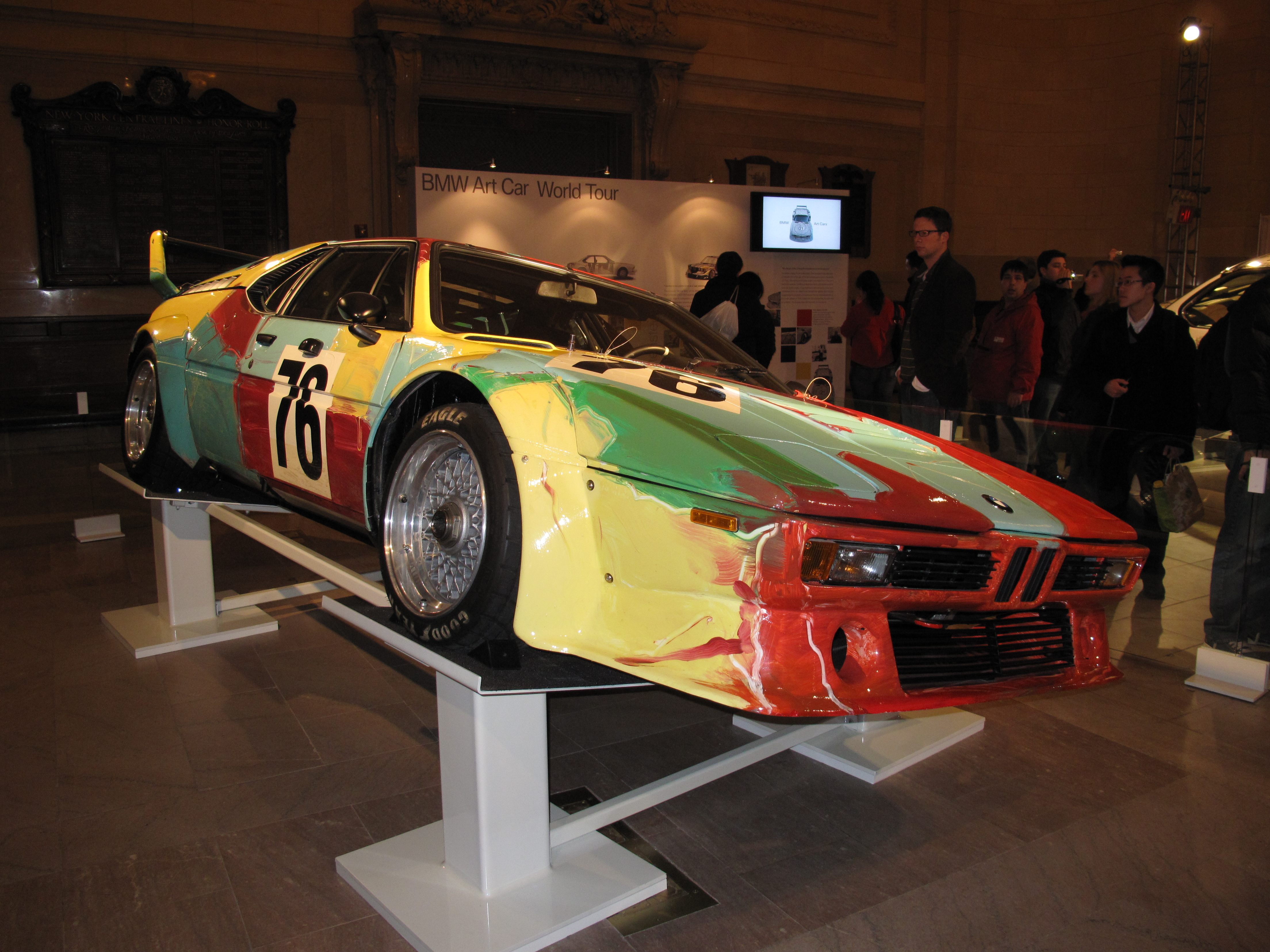 1979 BMW Group 4 M1 painted by Andy Warhol